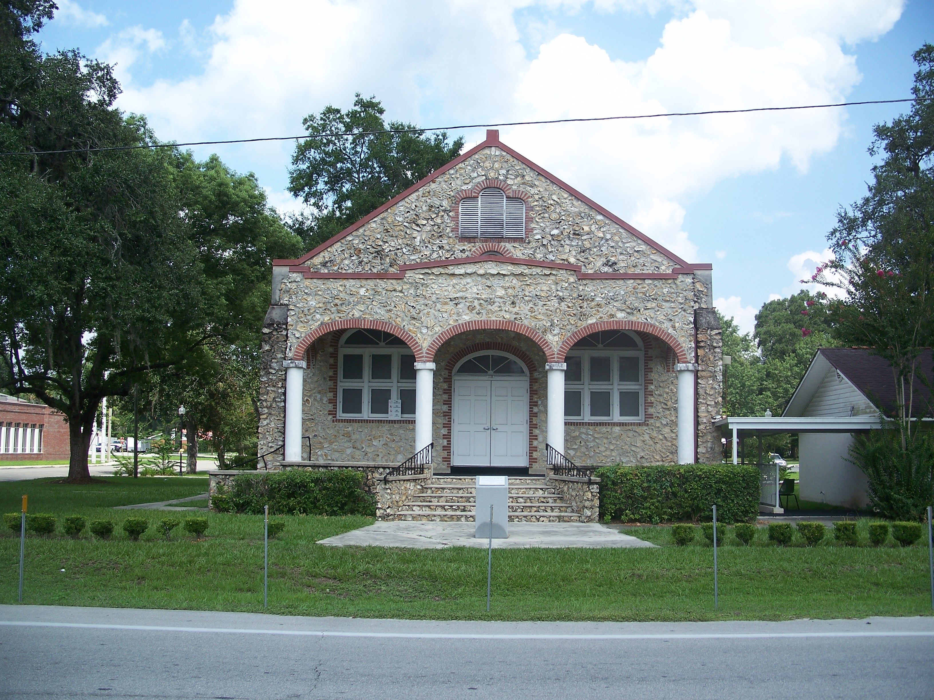 Trenton, Florida: Trenton Church of Christ, now the meeting place for the Gilchrist County Board of County Commissioners